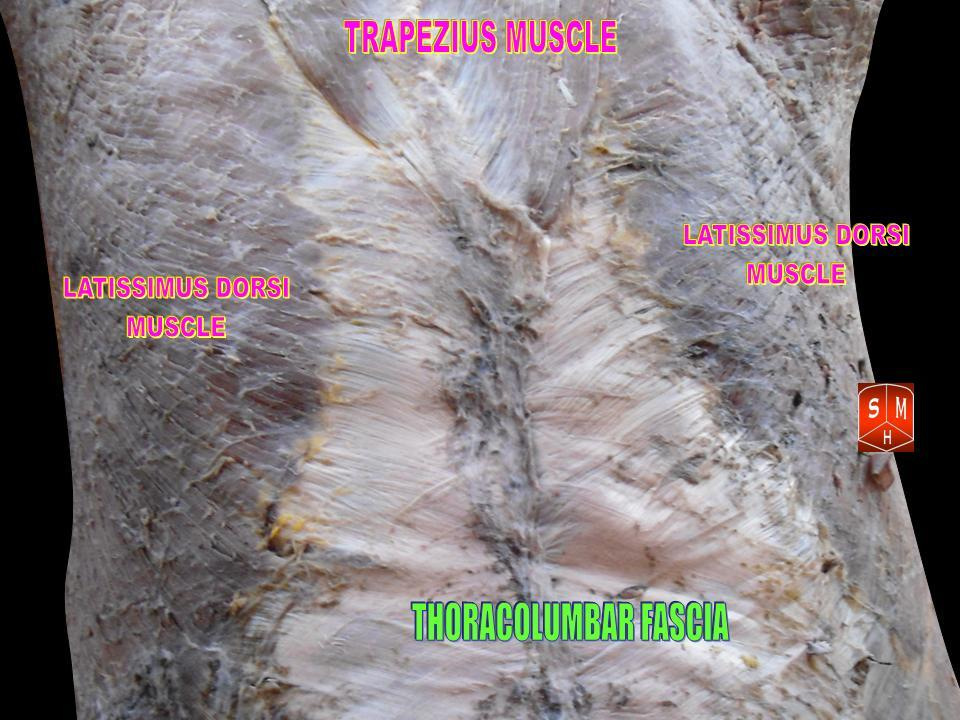 Anatomical dissections